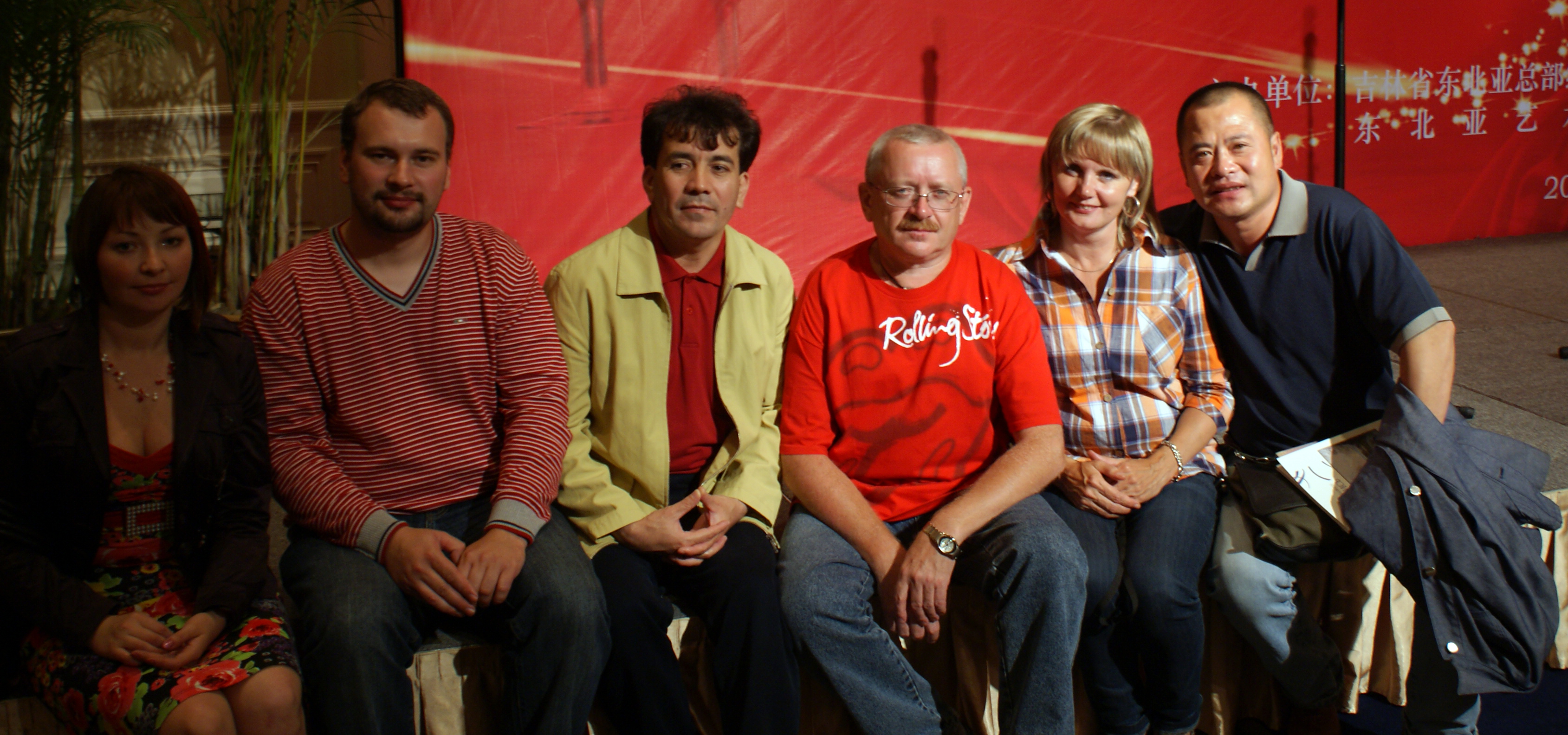 The general photo. International Exhibition the North-East Asia painting, photography, sculpture and Calligraphy. Held in Changchun China from August 31 to September 15, 2009.